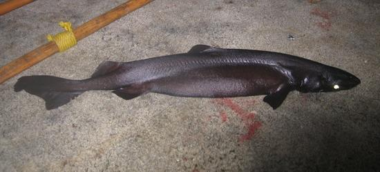 Velvet dogfish (Zameus squamulosus) (cropped from original)